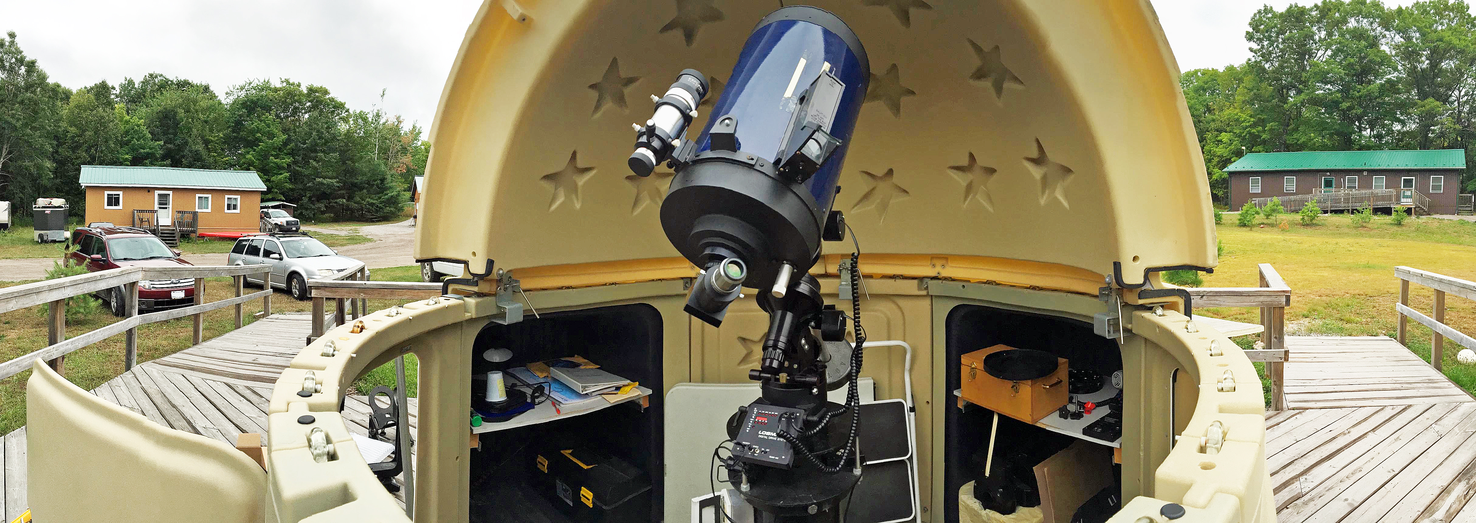 Interior of the Killarney Provincial Park Observatory